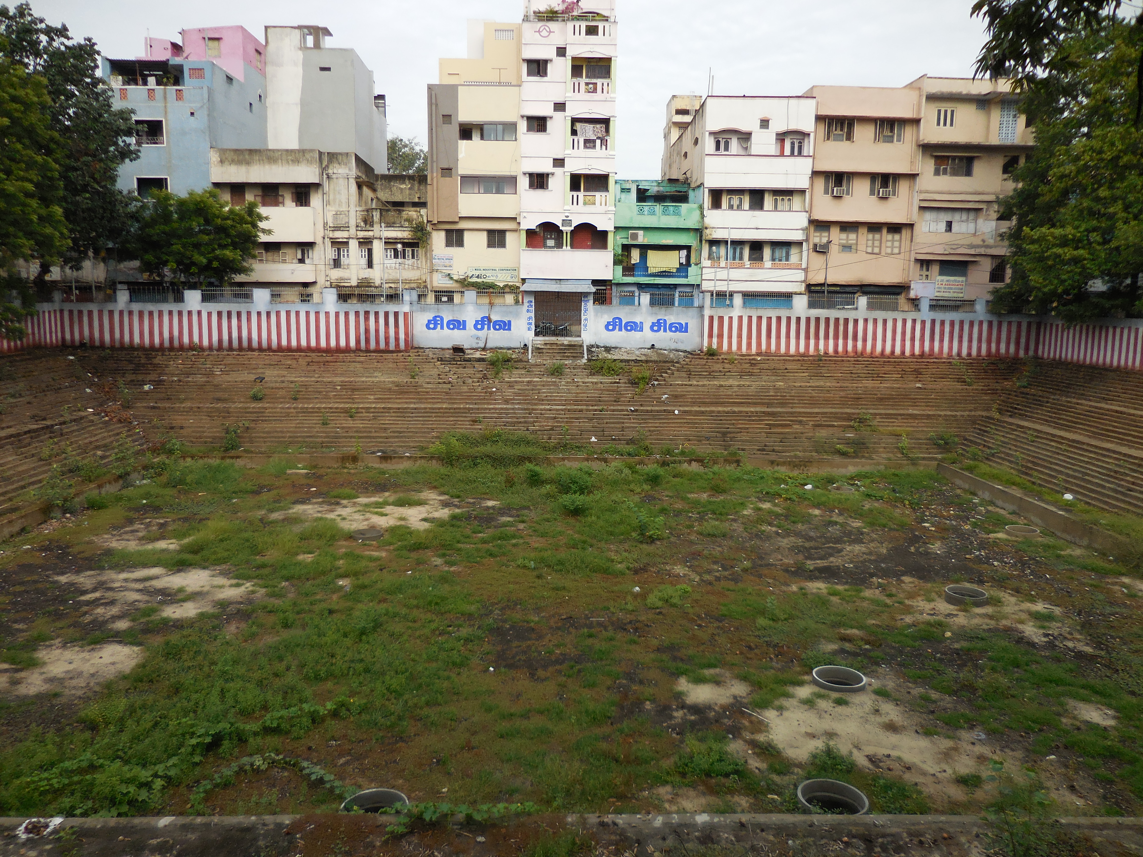 Temple tank at Kachchaaleshwarar Koil, Chennai, taken on 6 September 2014, at about 8:00 am